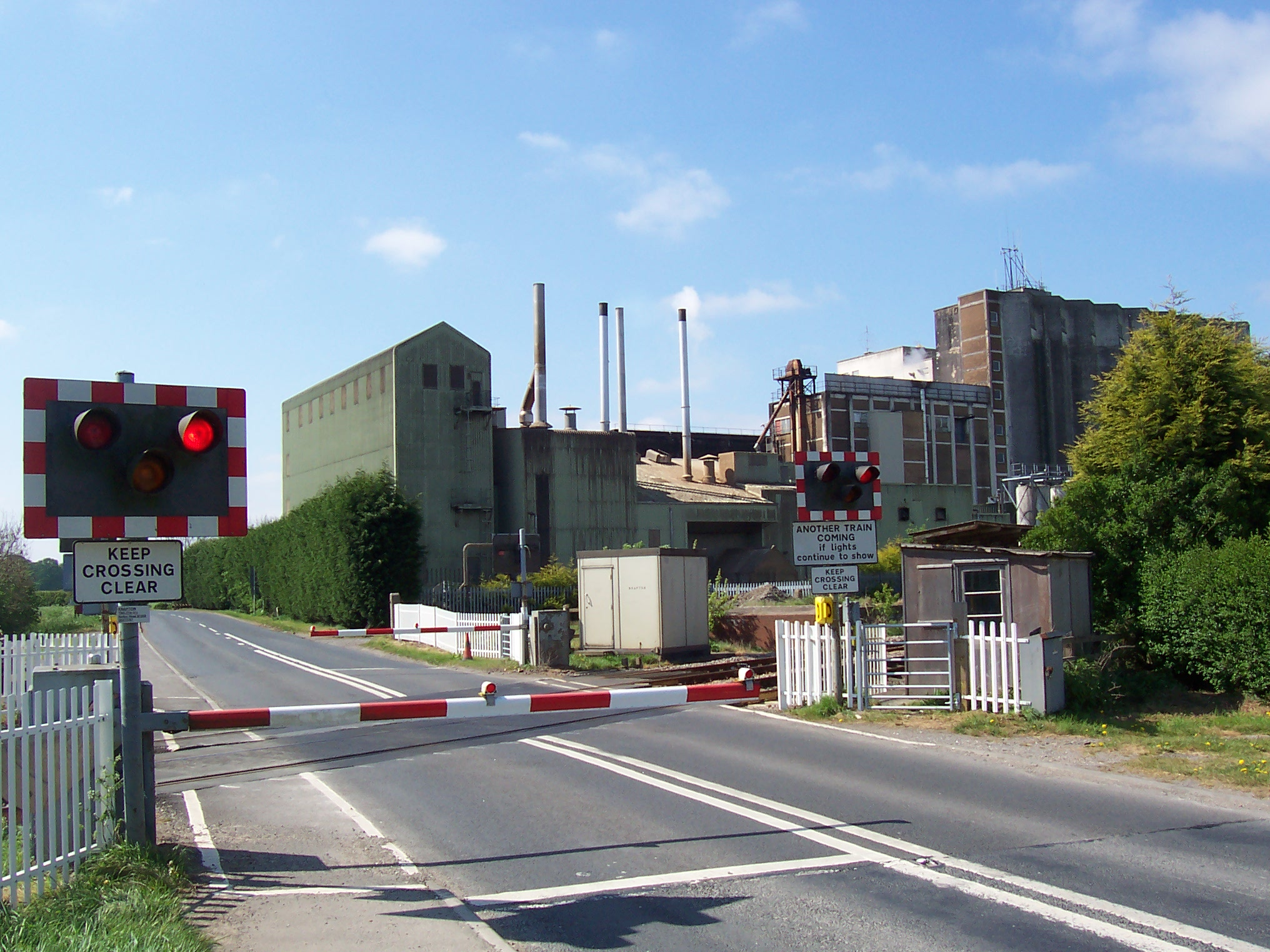 Knapton Maltings, built on the site of the former Knapton railway station goods yard.